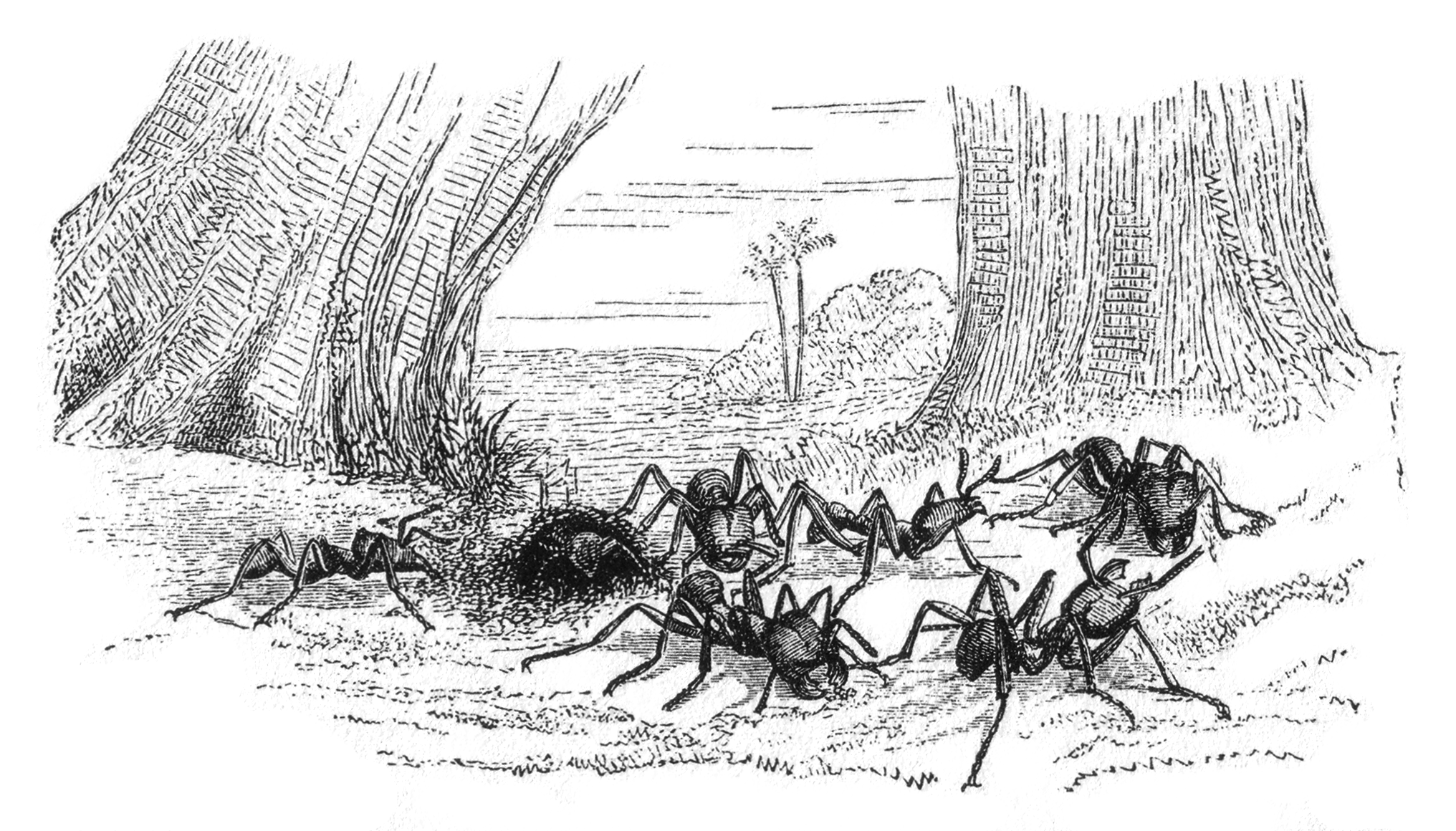 Caption: "Foraging ants (Eciton erratica) constructing a covered road—Soldiers sallying out on being disturbed."